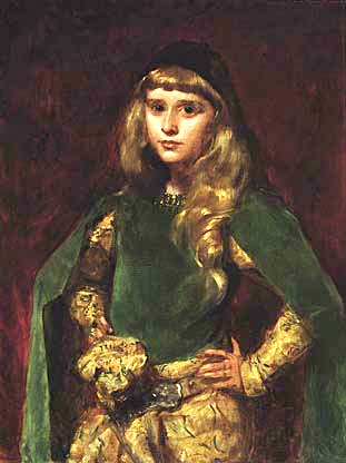 Natalie Clifford Barney (1876-1972)